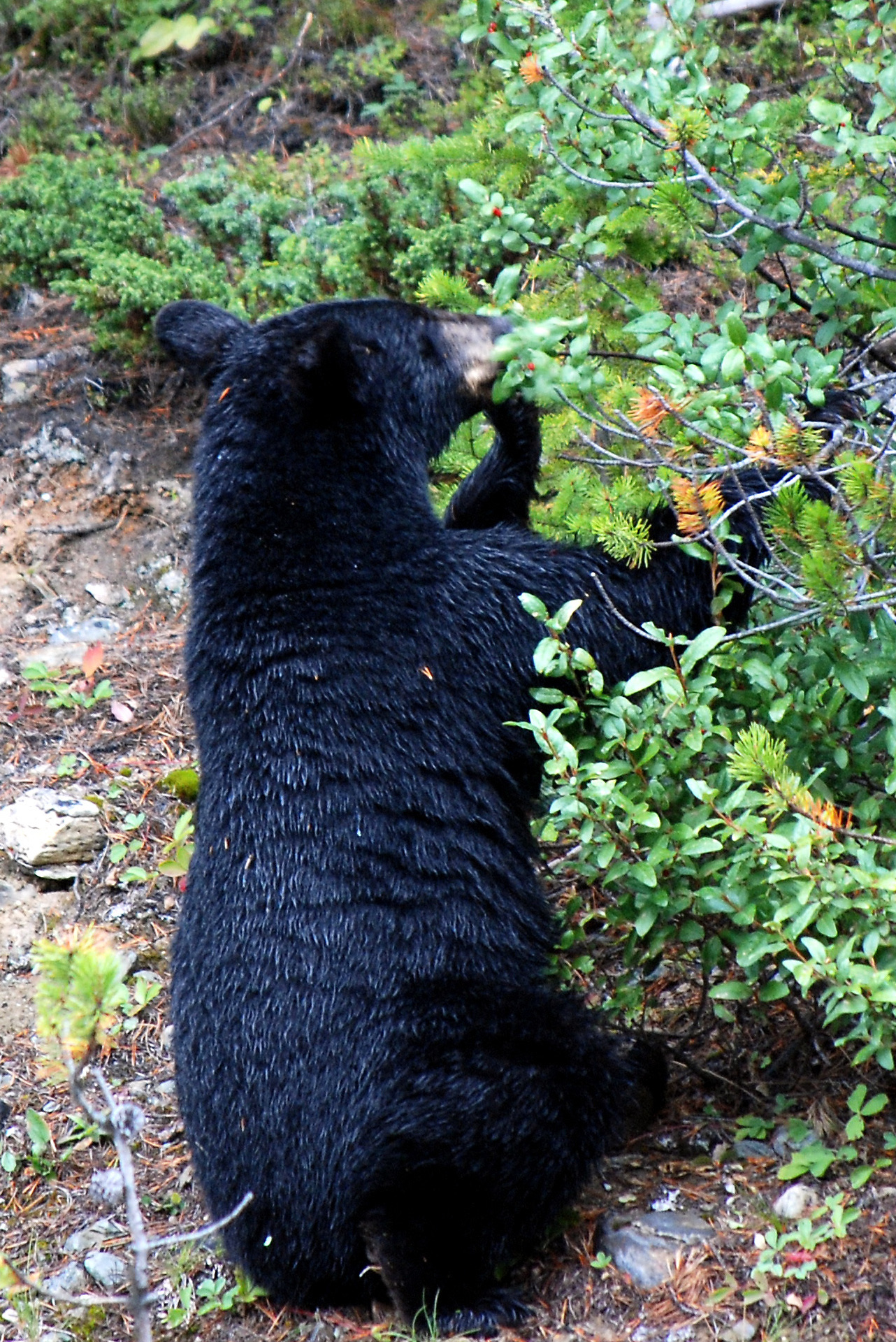 Black Bear at Lake Louise